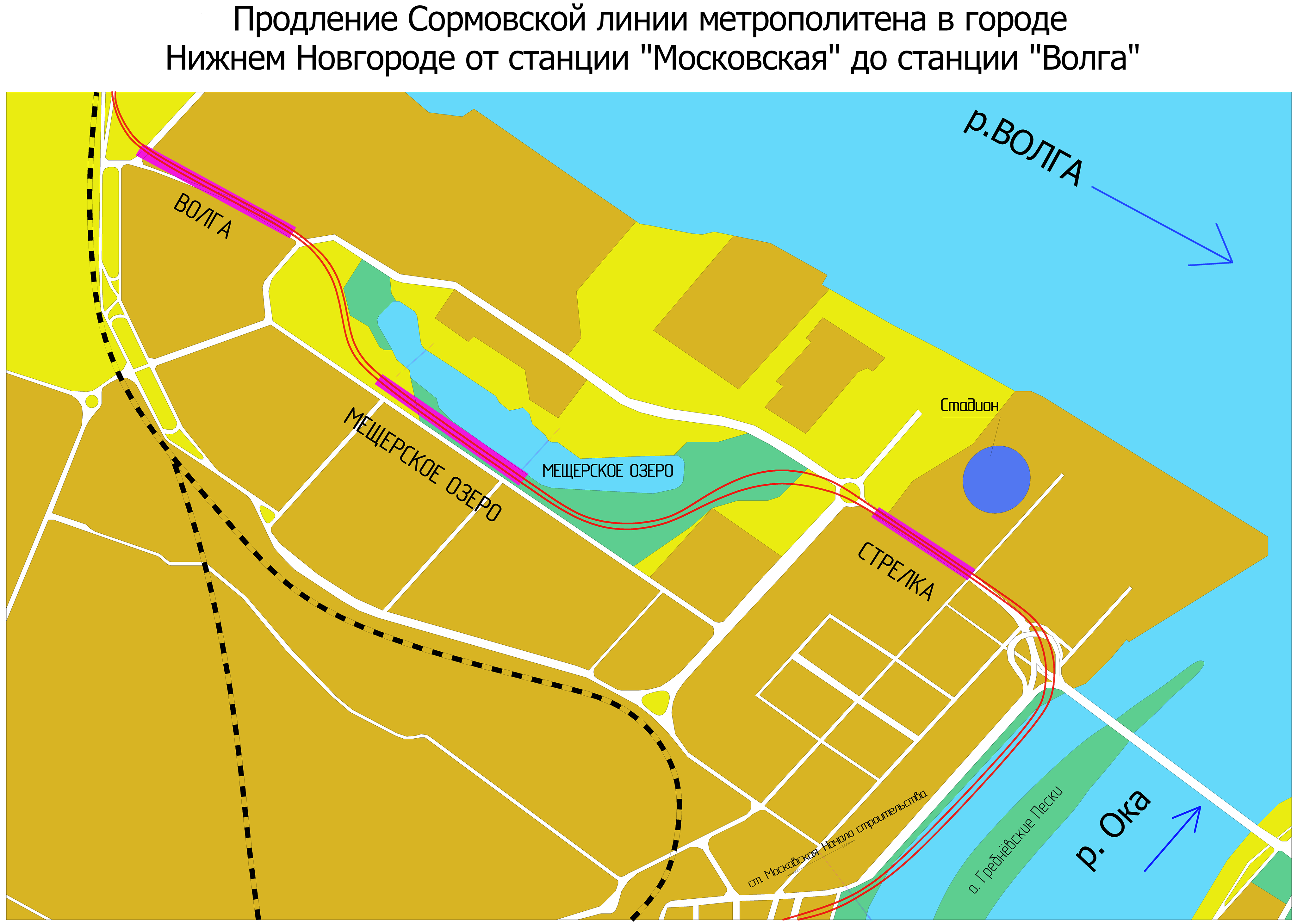 Extension of subway line "Sormovskaya" in Nizhny Novgorod from station "Moskovskaya" to station "Volga"